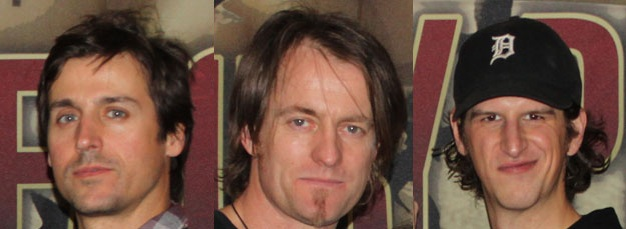 Our Lady Peace members in 2010. Raine Maida, Jeremy Taggart, Duncan Coutts, and Steve Mazur.